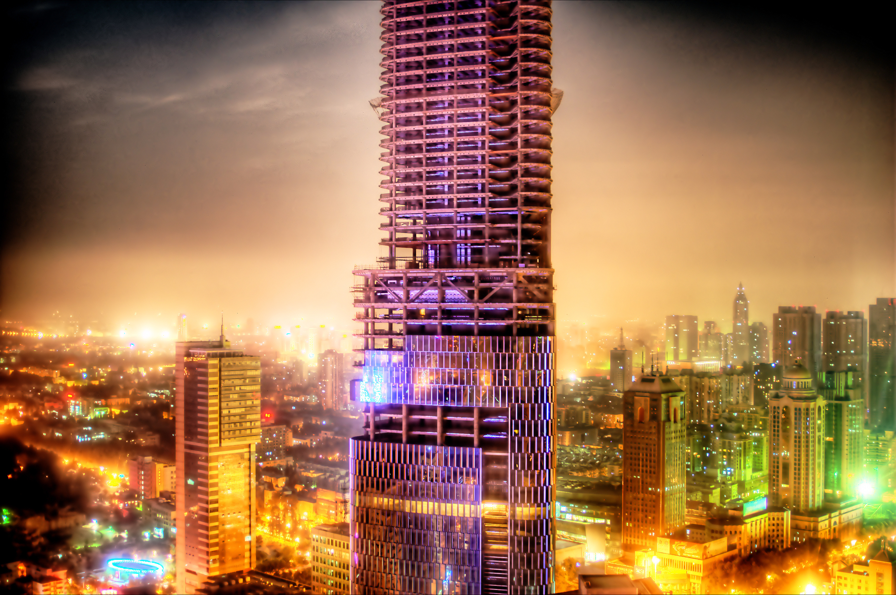 Nanjing Greenland Financial Center under construction in Nanjing, China. Current 5th tallest building in the world